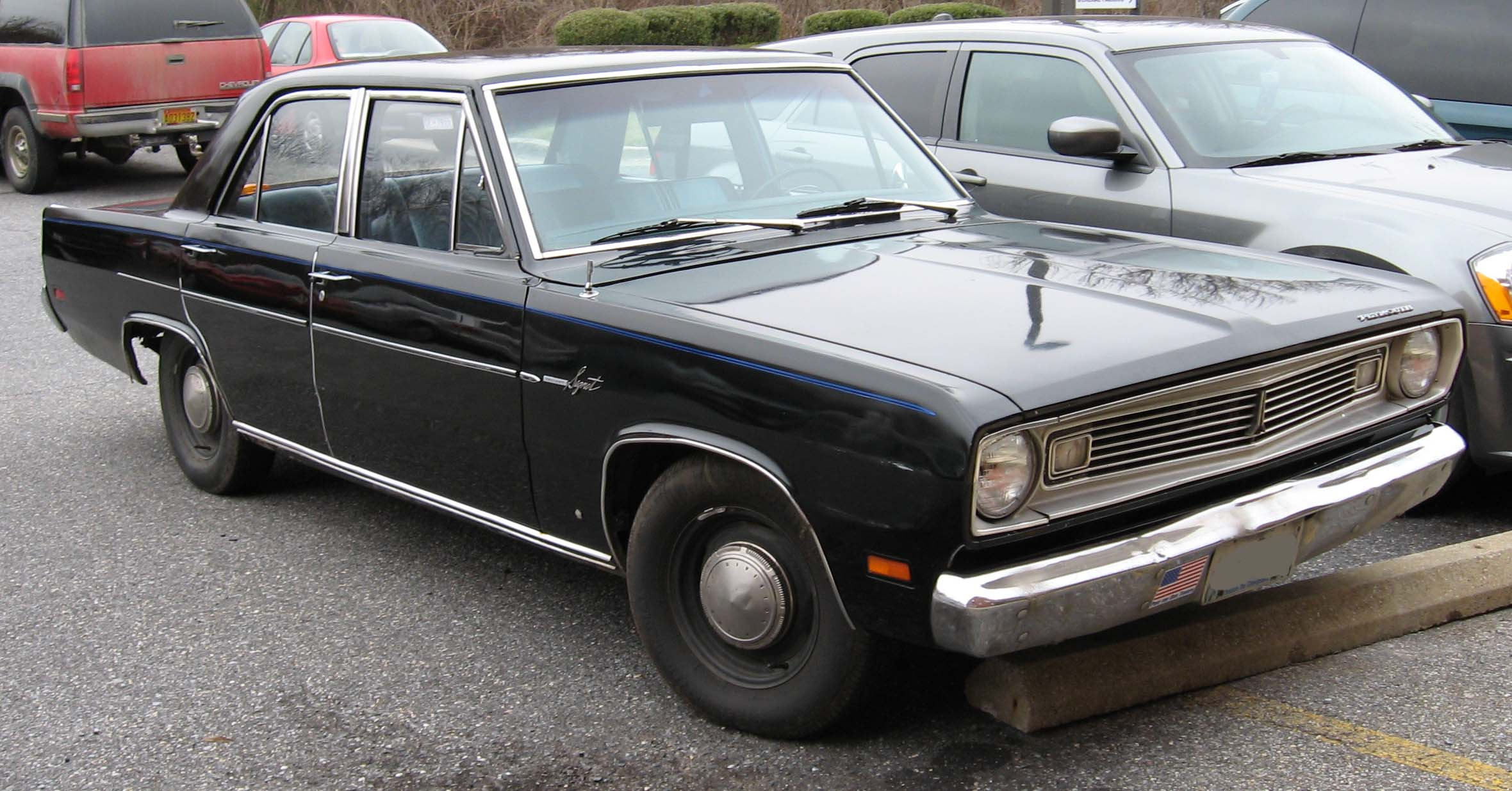 Plymouth Valiant photographed in USA.